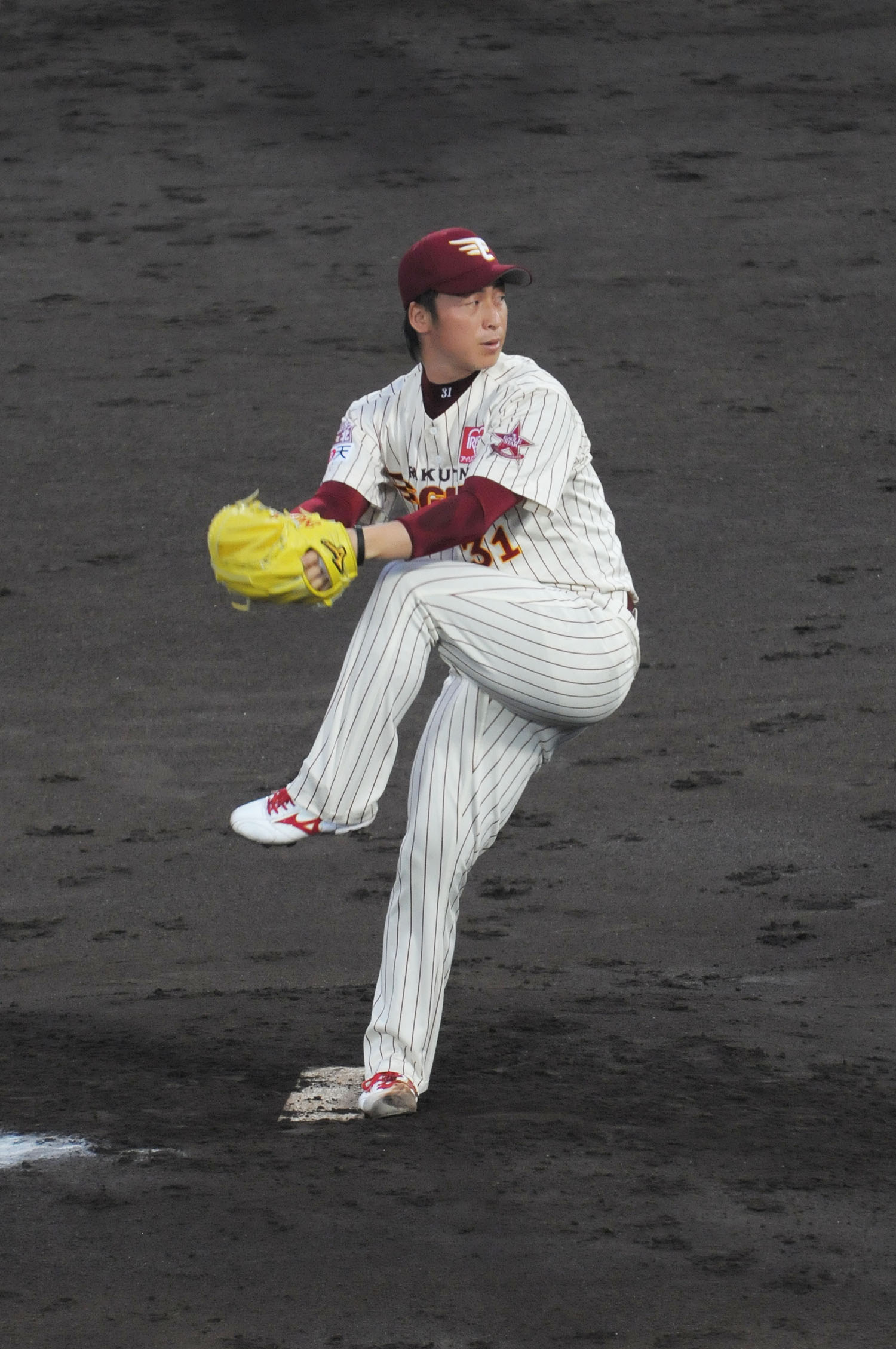 Manabu Mima, pitcher of the Tohoku Rakuten Golden Eagles, at Akita Prefectural Baseball Stadium